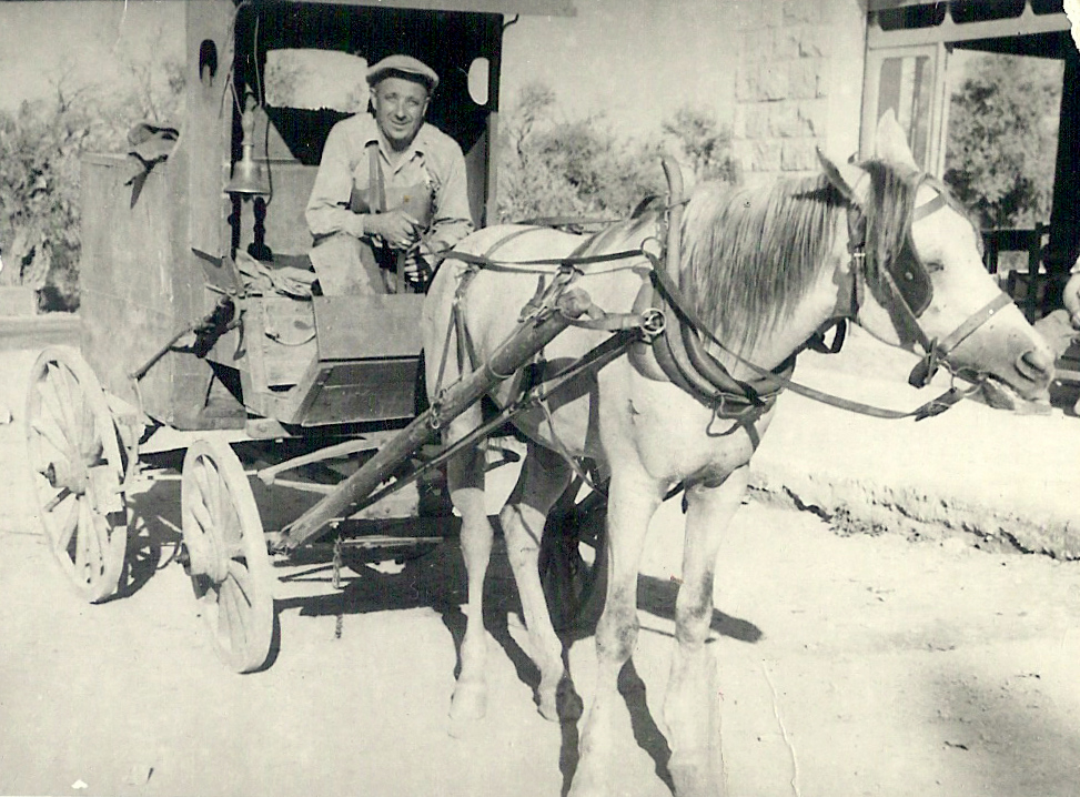 Salomon David on his horse 'Shimel' in Tel Hanan